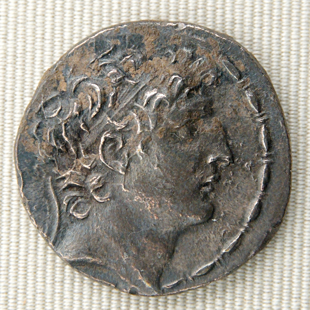 Silver tetradrachm of Tarsus under the reign of Antiochos VIII Grypos, obverse: portrait of the king.